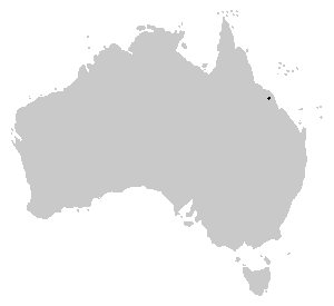 Distribution of Eungella Torrent Frog (Taudactylus eungellensis).